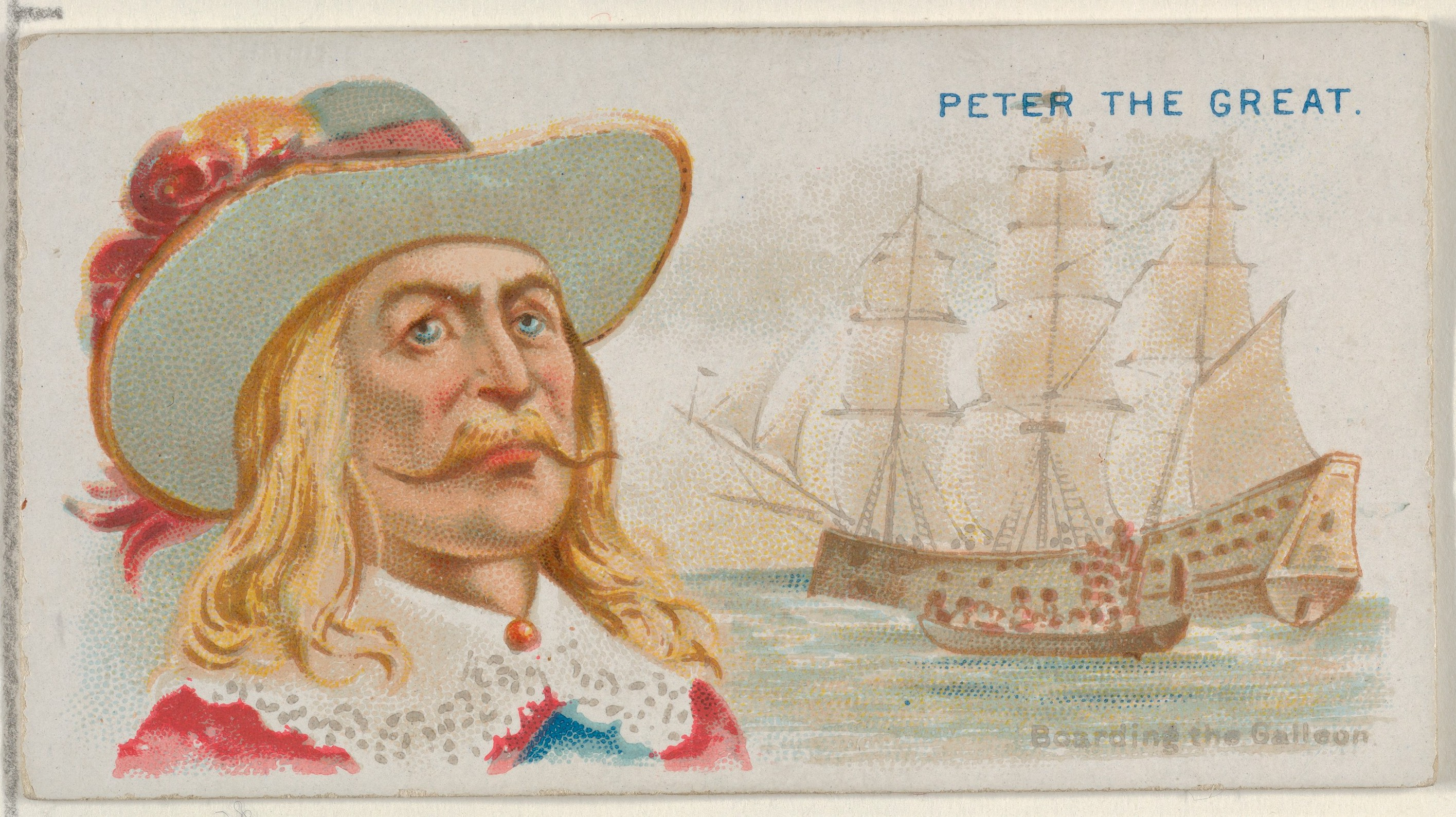 Print; Prints